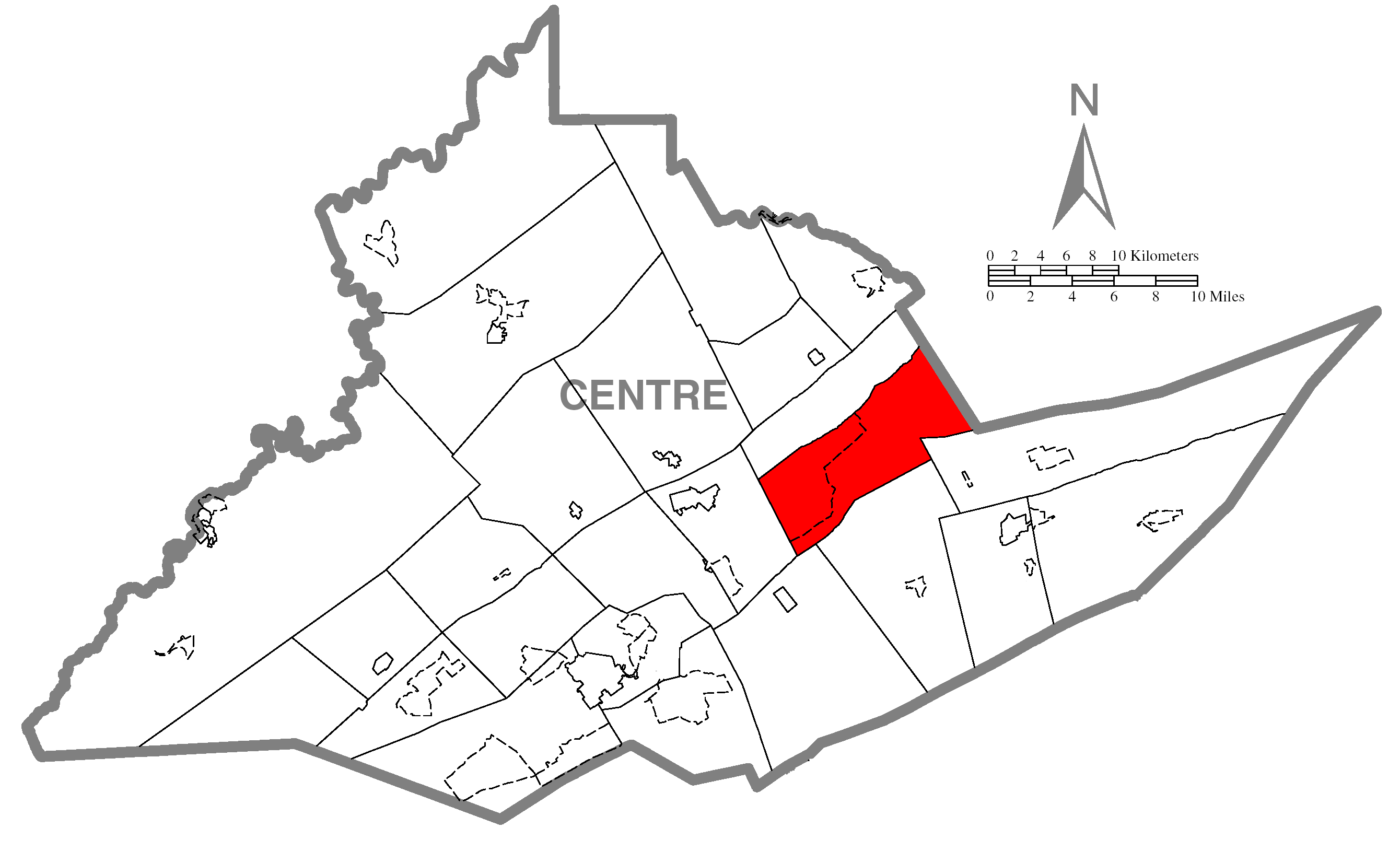 A map of Centre County showing Walker Township, Pennsylvania (alternate) highlighted on the map.